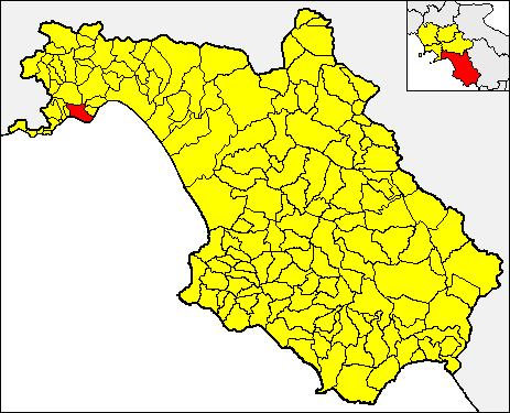 Locator map of the municipality of Maiori (red) within the Province of Salerno